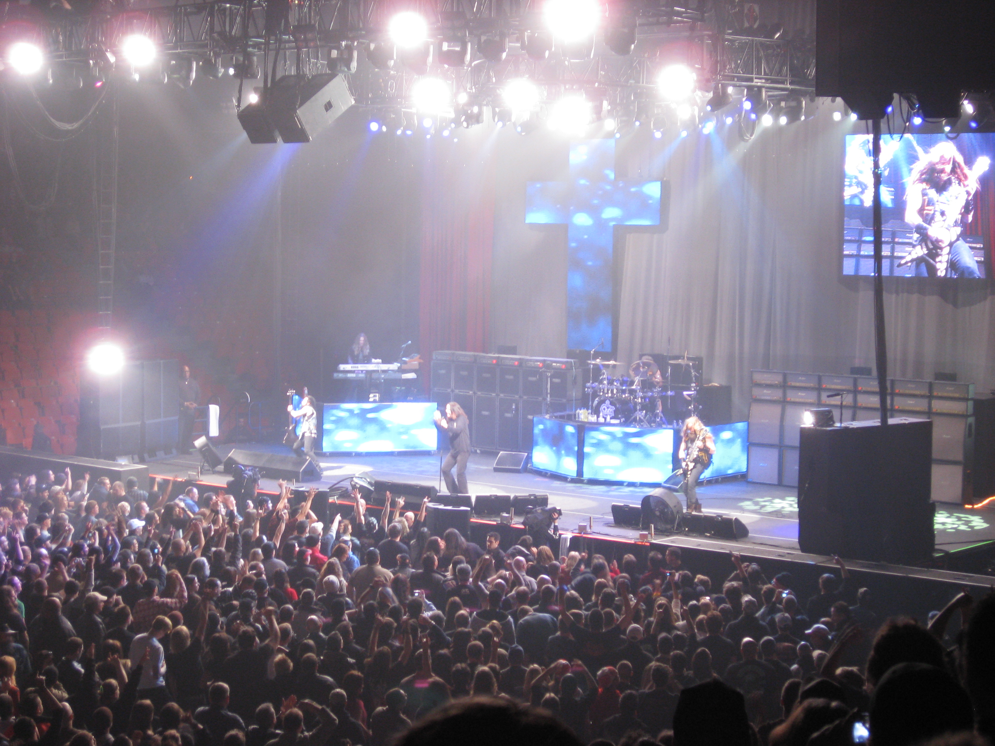 Ozzy Osbourne in Halifax with Zaak Wylde